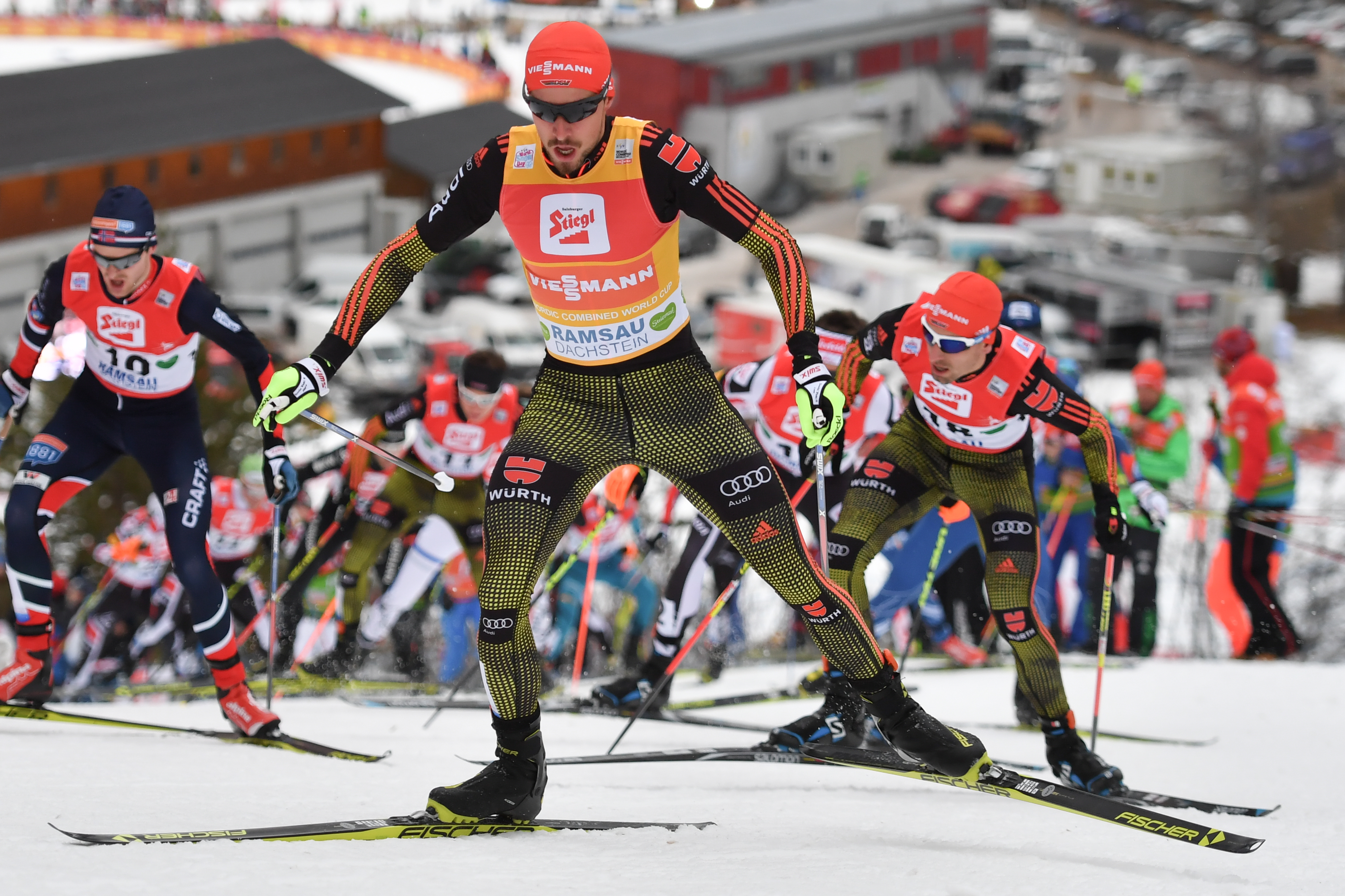 FIS World Cup Nordic Combined, Ramsau/Austria, 2016-12-16 to 2016-12-18.